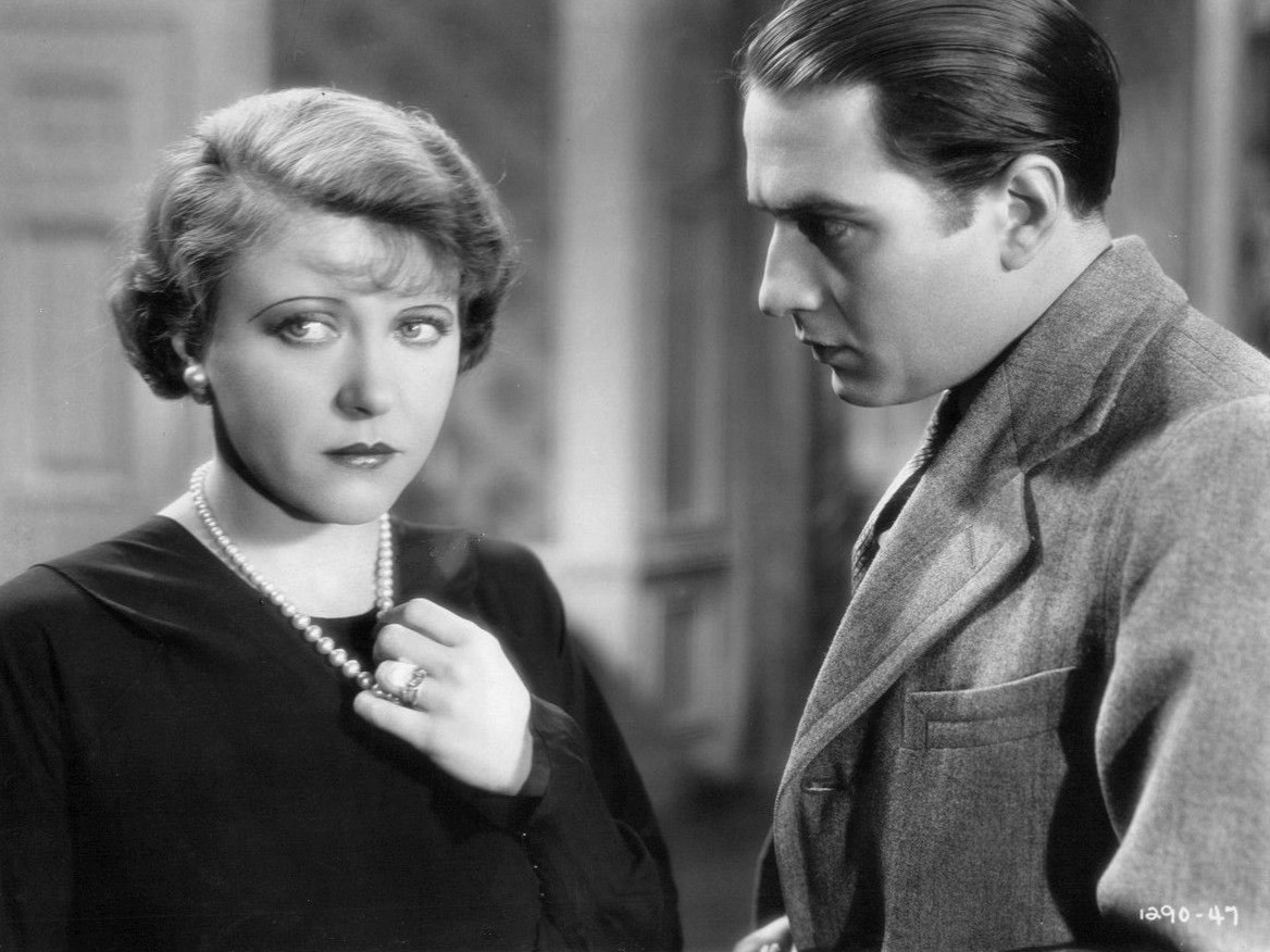 Ruth Chatterton and Donald Cook in a scene from the 1931 film Unfaithful.